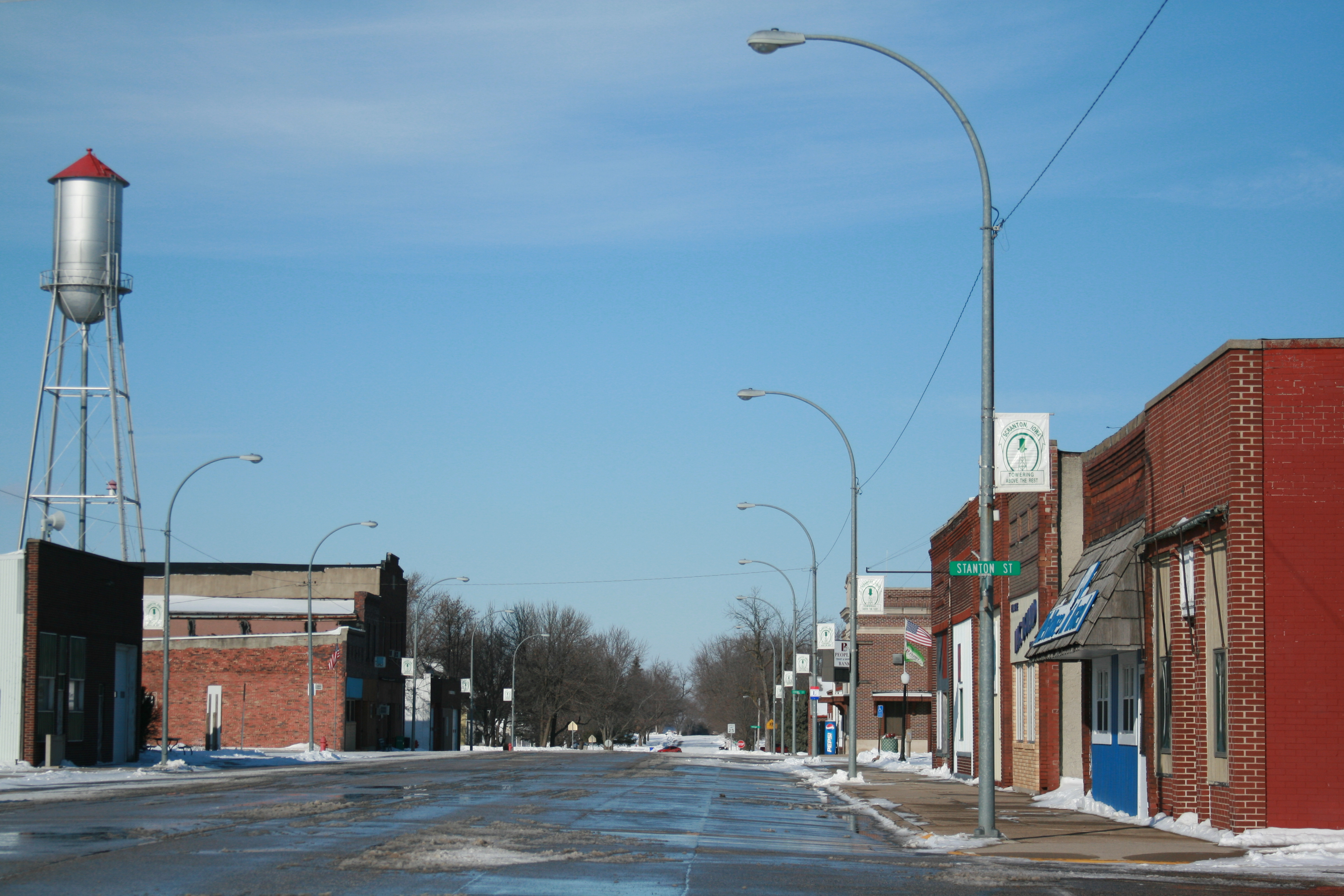 View along Main Street in Scranton, Iowa, looking North